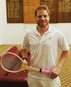 2016 Real Tennis World Champion Camden Riviere